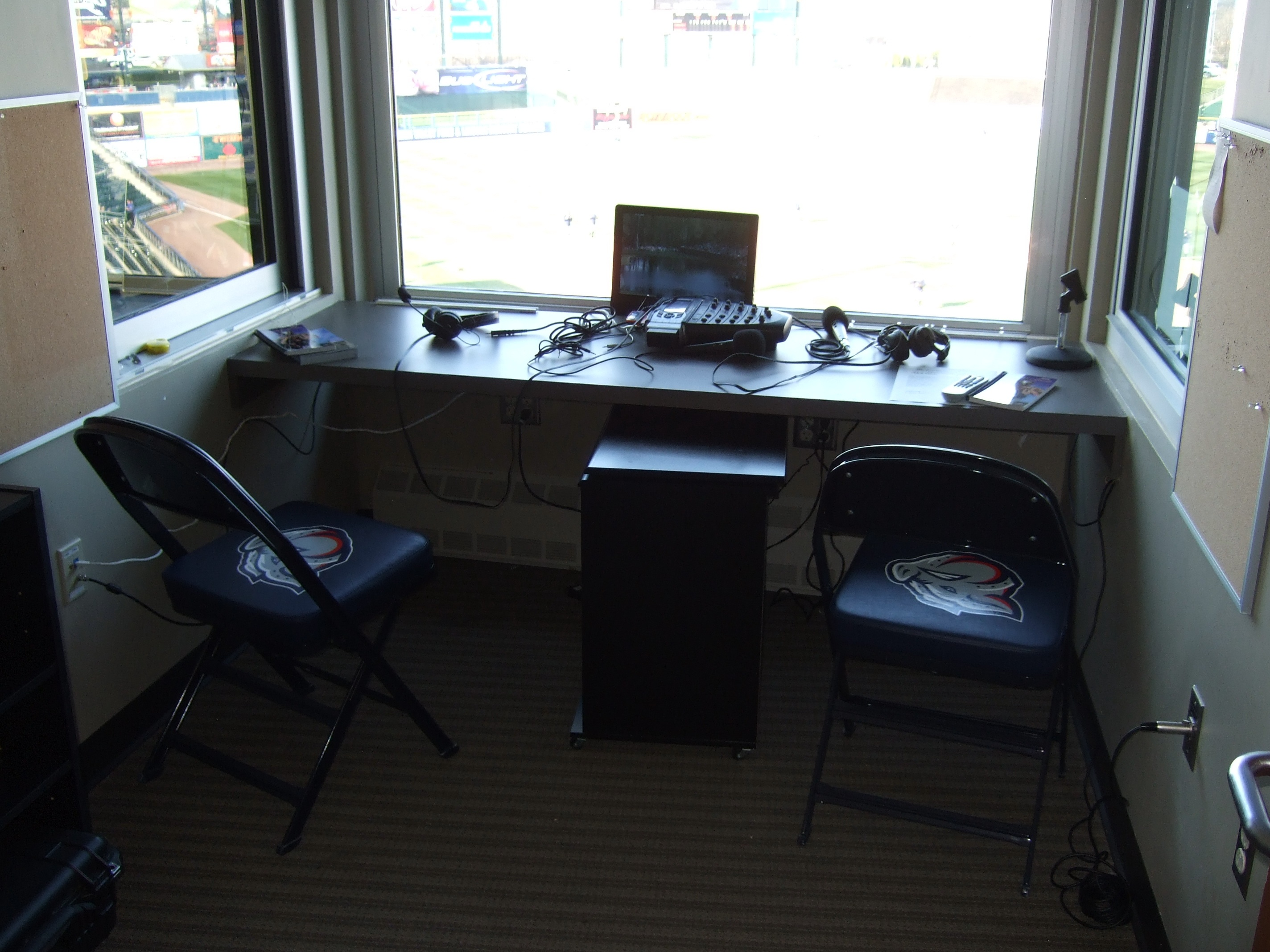 The booth for Iron Pigs home radio broadcast